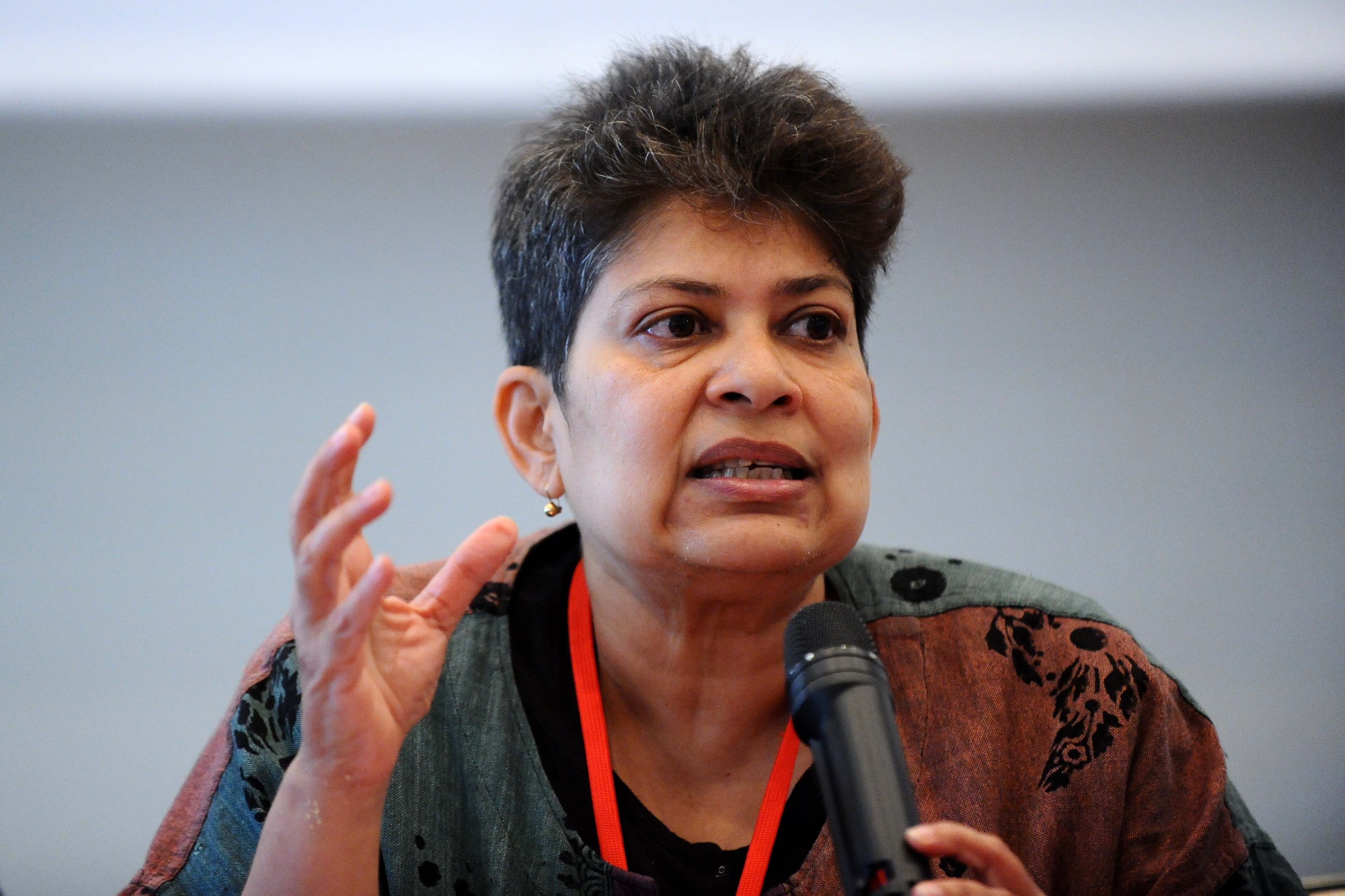 Wikimedia Conference 2013 board meeting.